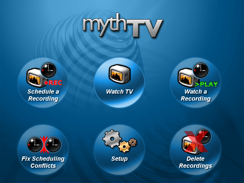 The MythTV menu (former default theme, blue) Taken from the screenshots on the MythTV Official Website